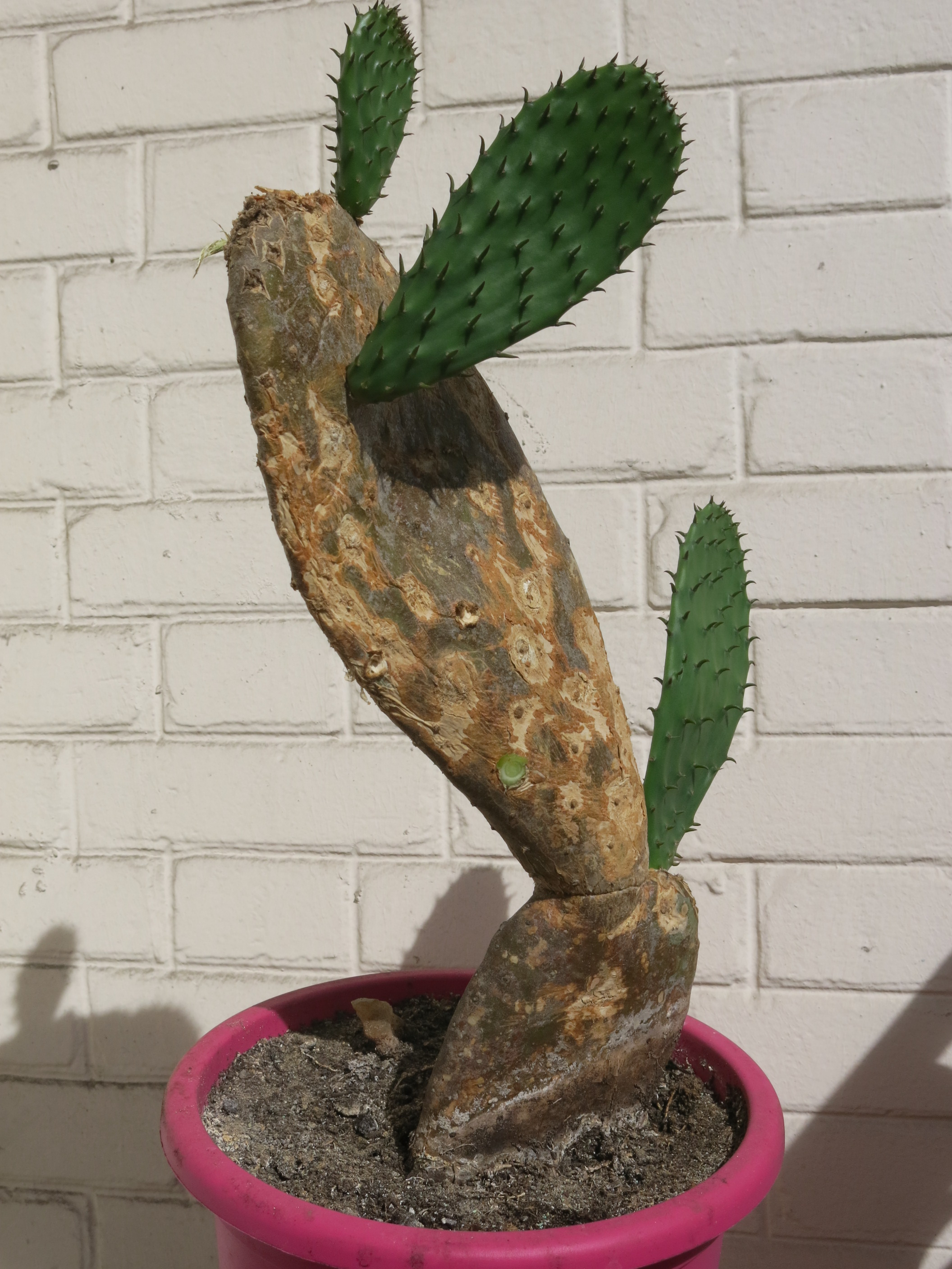 Opuntia ficus-indica created by plant-cutting in 2010 of a large cladode. Woodiness of Opuntia ficus-indica. Young cladods (leaves) are green, but old ones are covered with lignin.